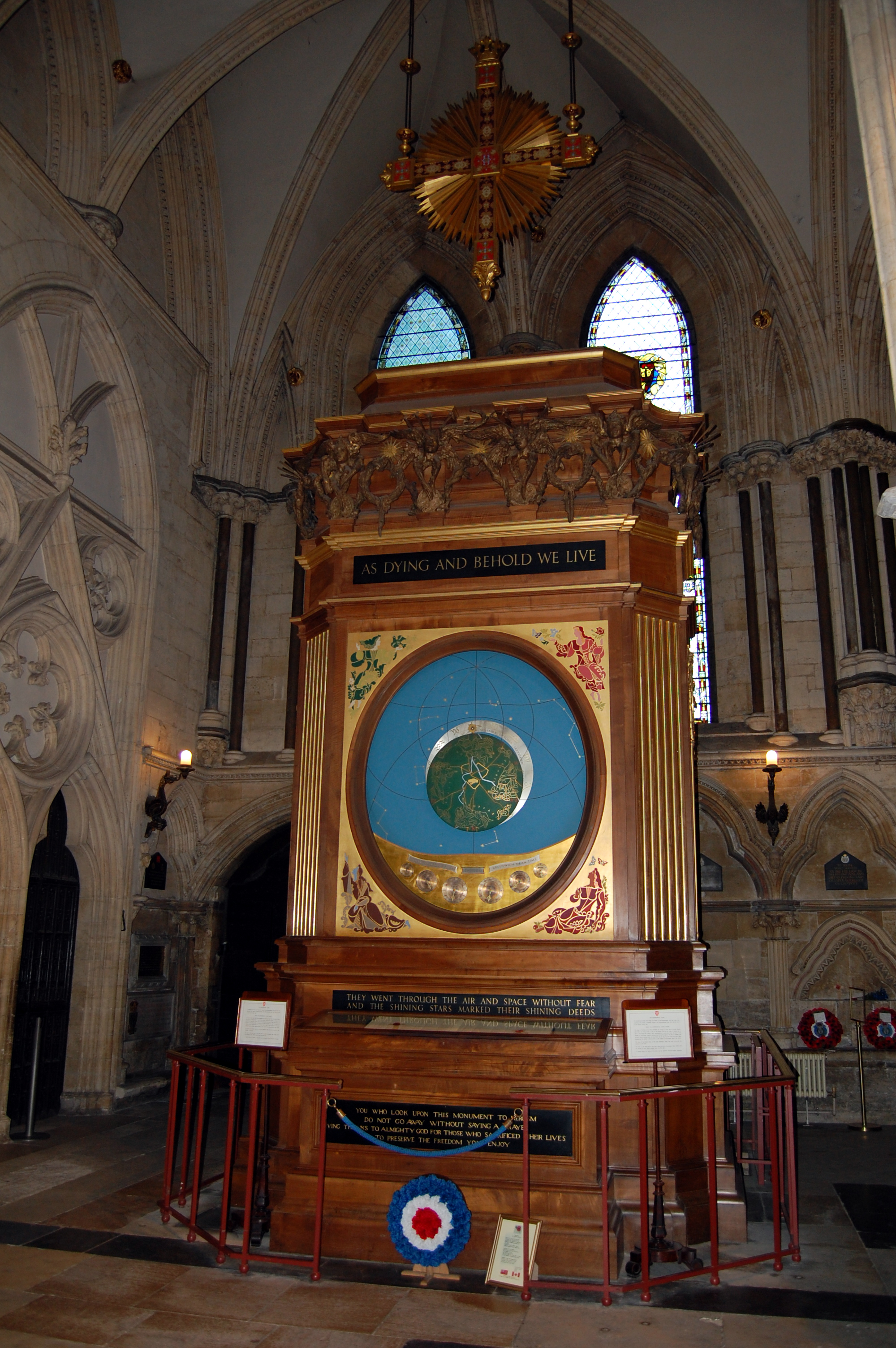 York Minster astronomical clock.